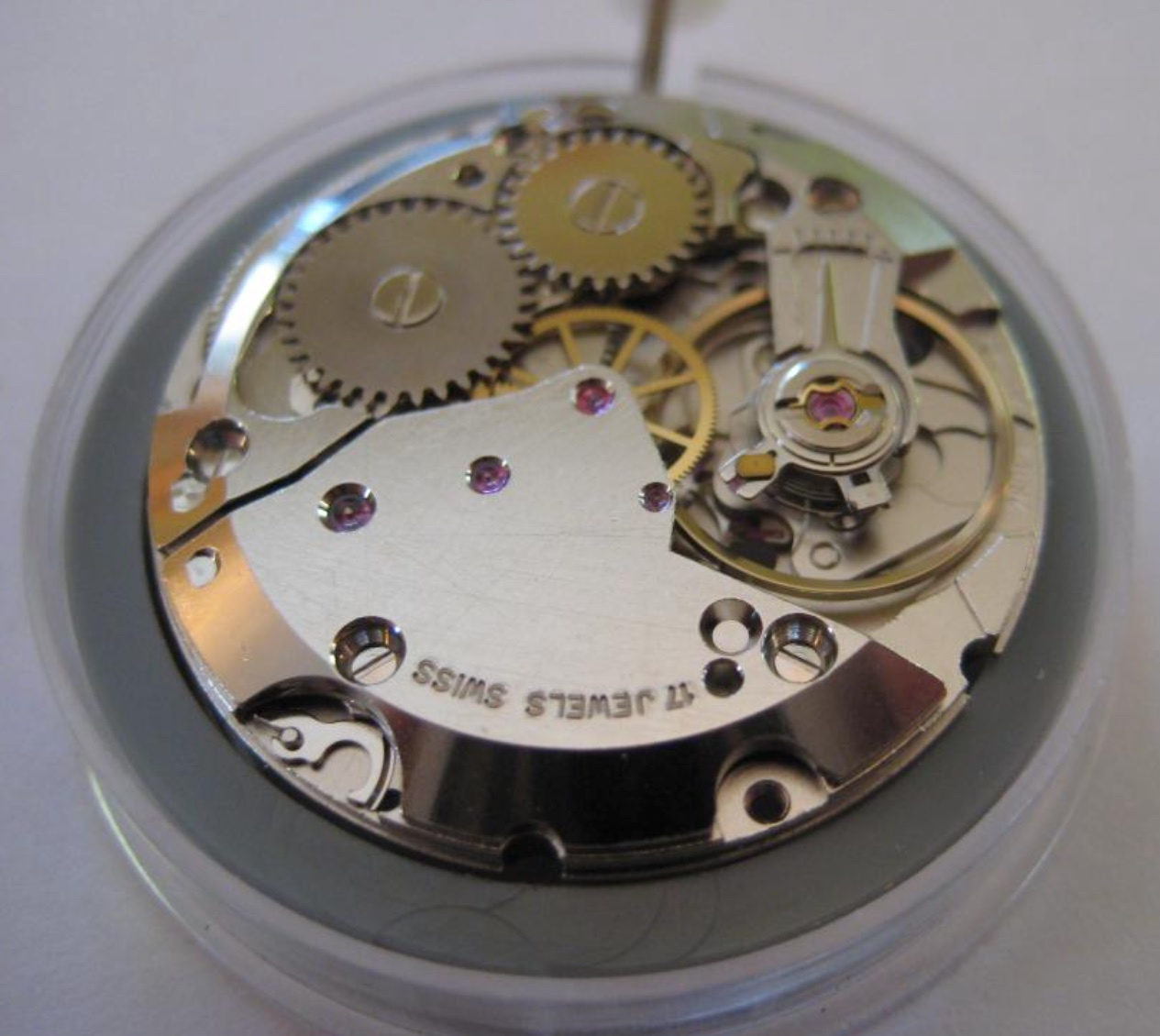 The Movement that started it all, the ETA 2801